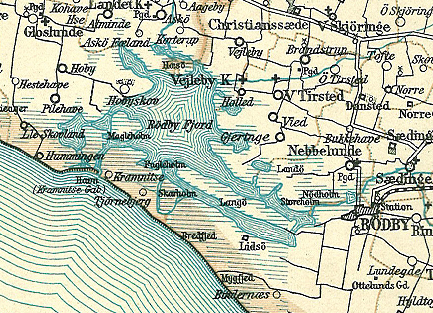 Map of Rødby Fjord in Denmark